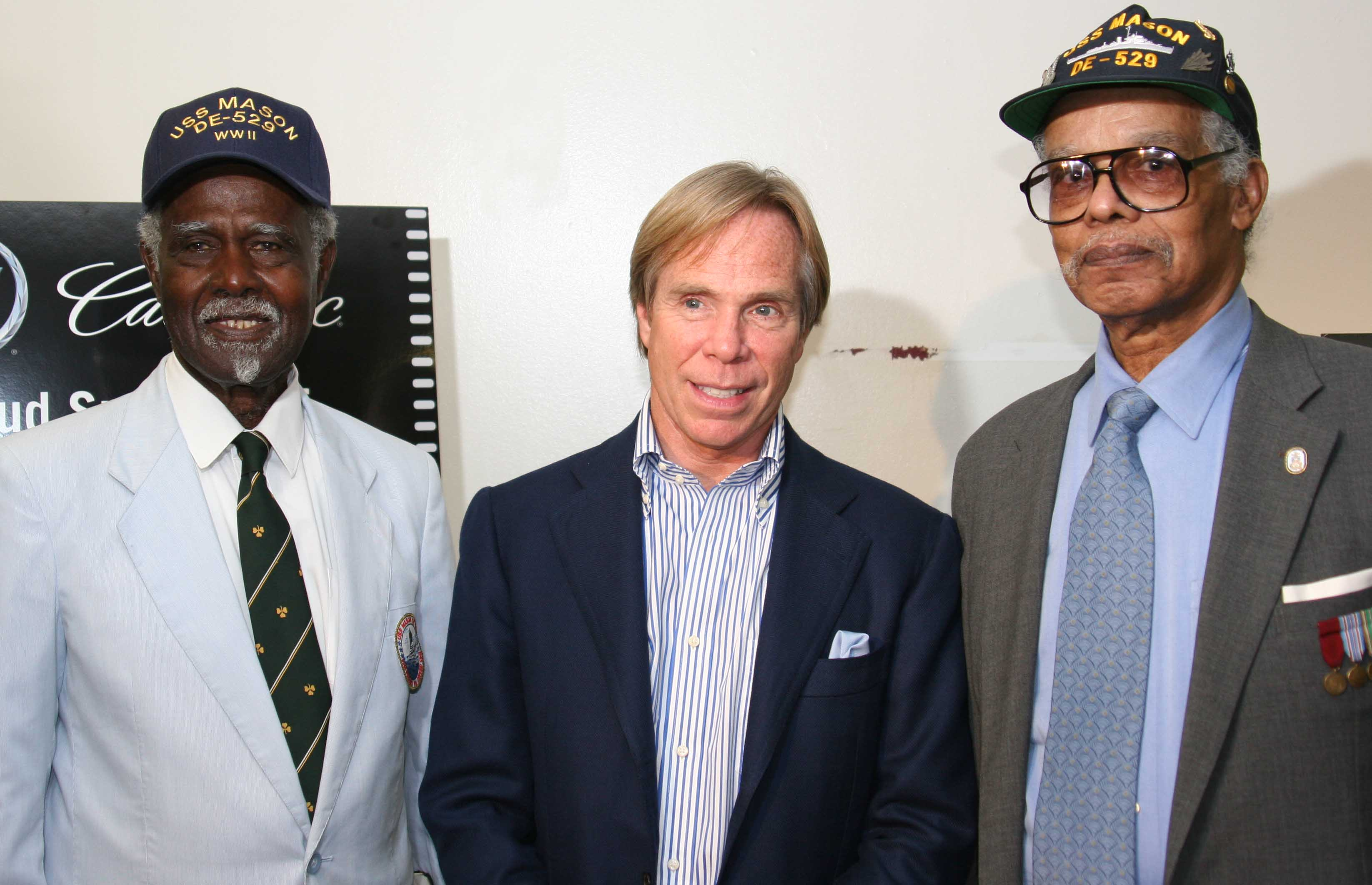 World War II veterans, Petty Officer 1st class Lorenzo A. DuFau, a former signalman, and Petty Officer 2nd class James W. Graham of USS Mason take a moment to pose with fashion mogul Tommy Hilfiger for a photo during the screening of �Proud� at the Apollo Theater.